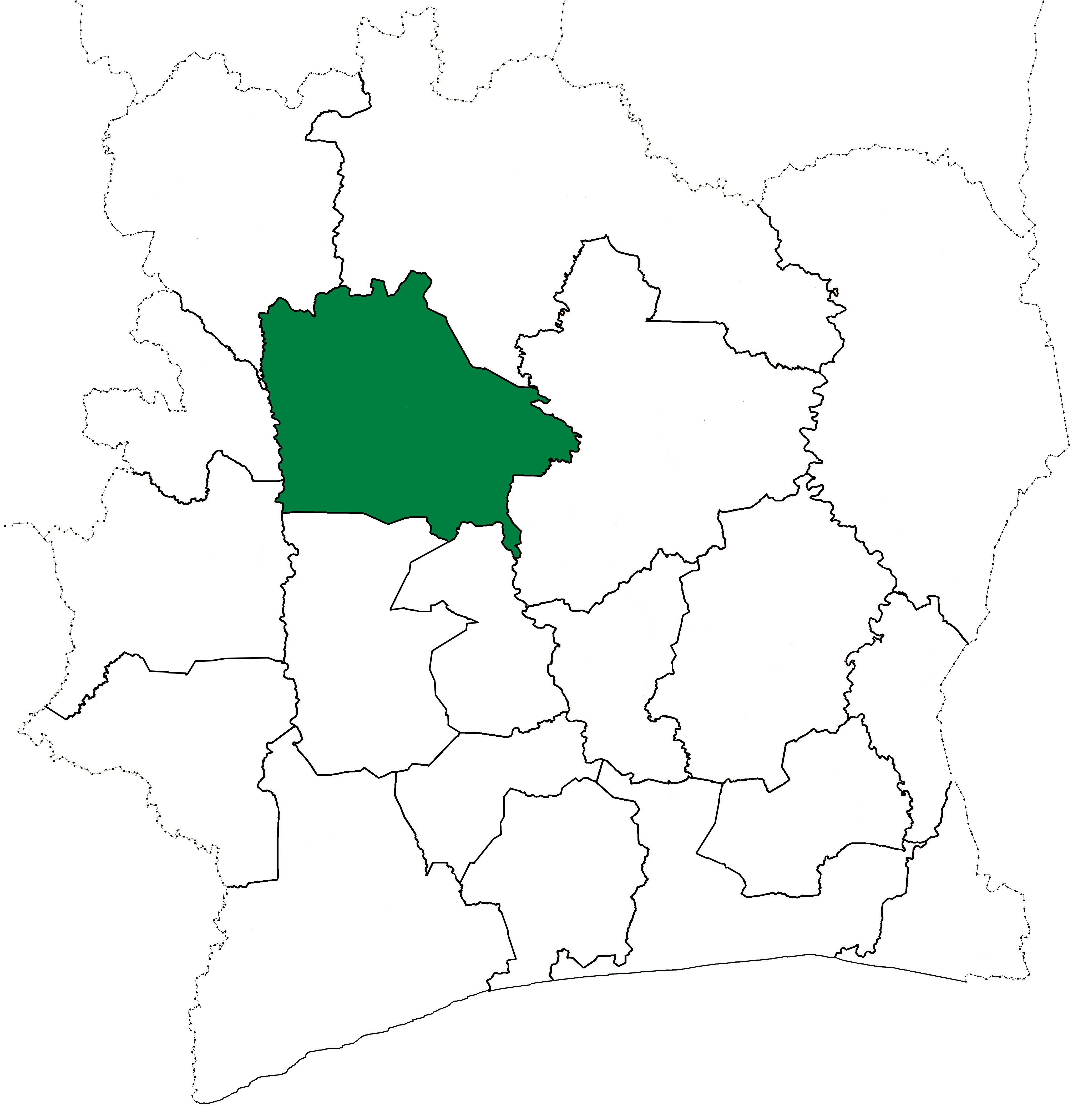 Locator map for Worodougou Region in Côte d'Ivoire after Bafing Region had been created from it in 2000. Worodougou retained these boundaries until 2011, when it was divided again to create Béré Region.